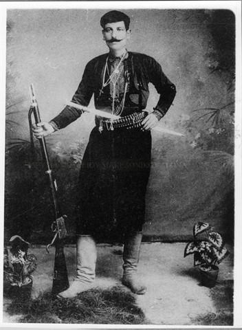 Portrait of greek revolutonary Emanuil Benis